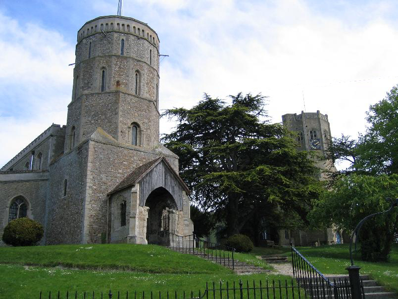 The medieval churches of St Mary (left) and St Cyriac and Julitta (right) in Swaffham Prior, Cambridgeshire. Saturday May 14, 2005.